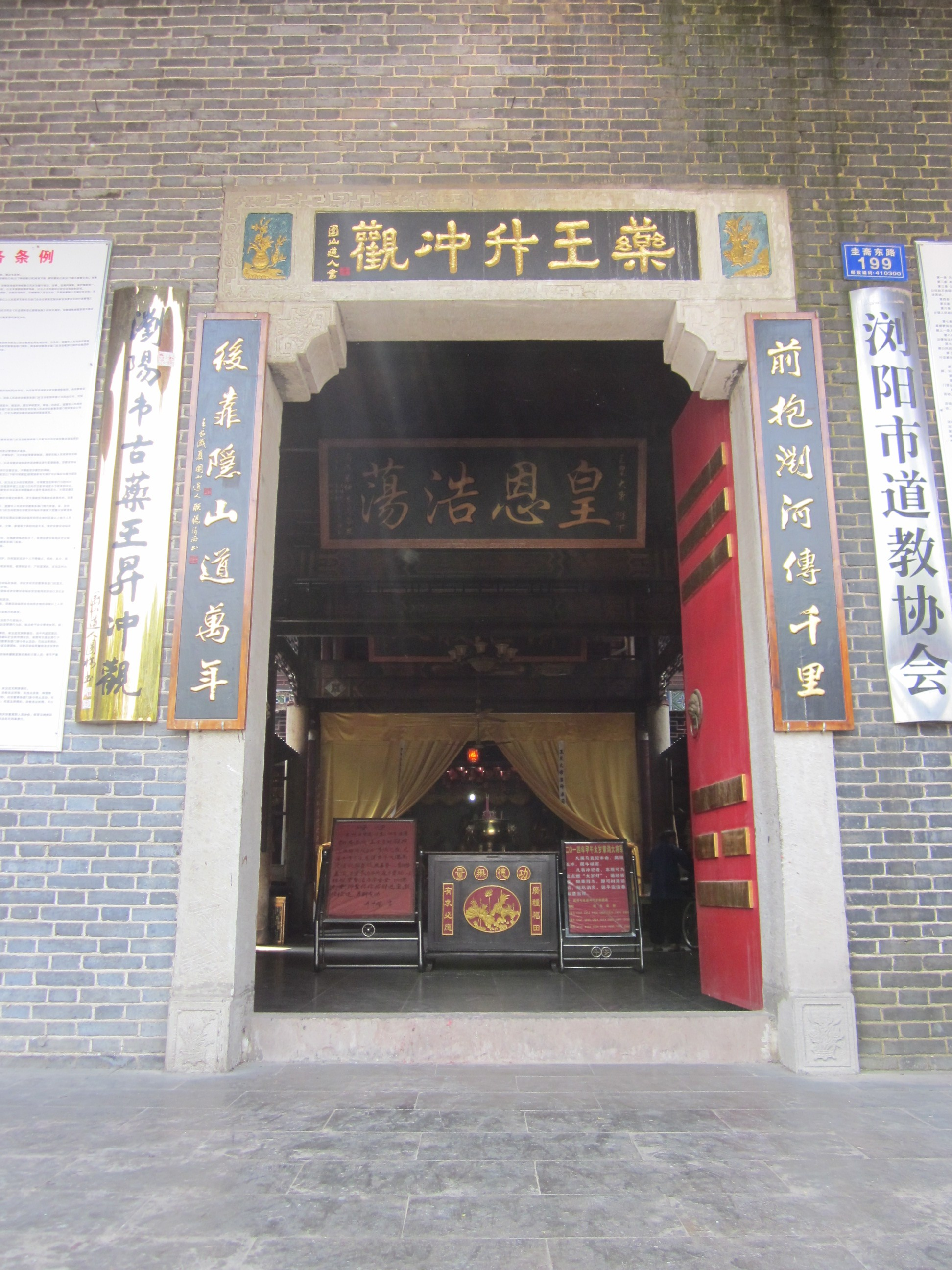 The main gate of Yaowang Shengchong Palace.